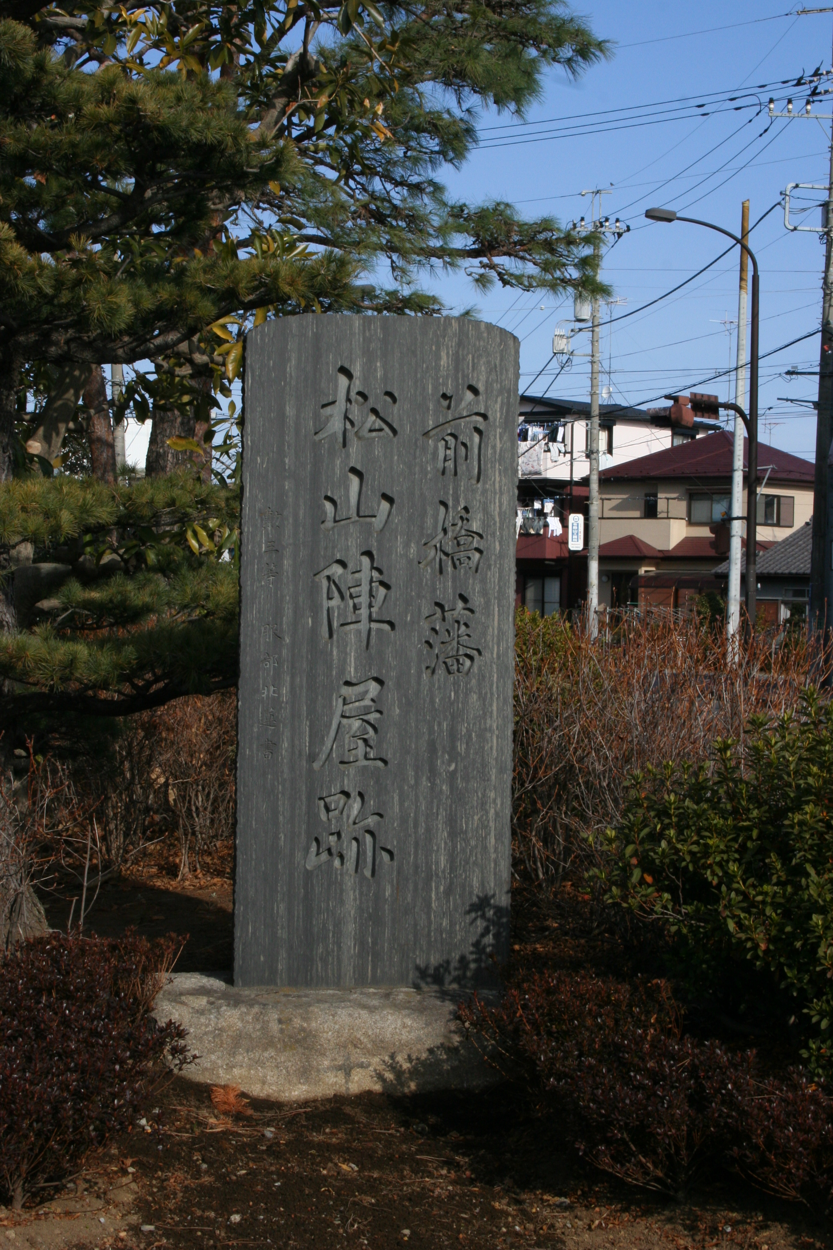 A monument of Matsuyama-jinya(Samurais' camp), Higashimatsuyama-shi, Saitama, Japan